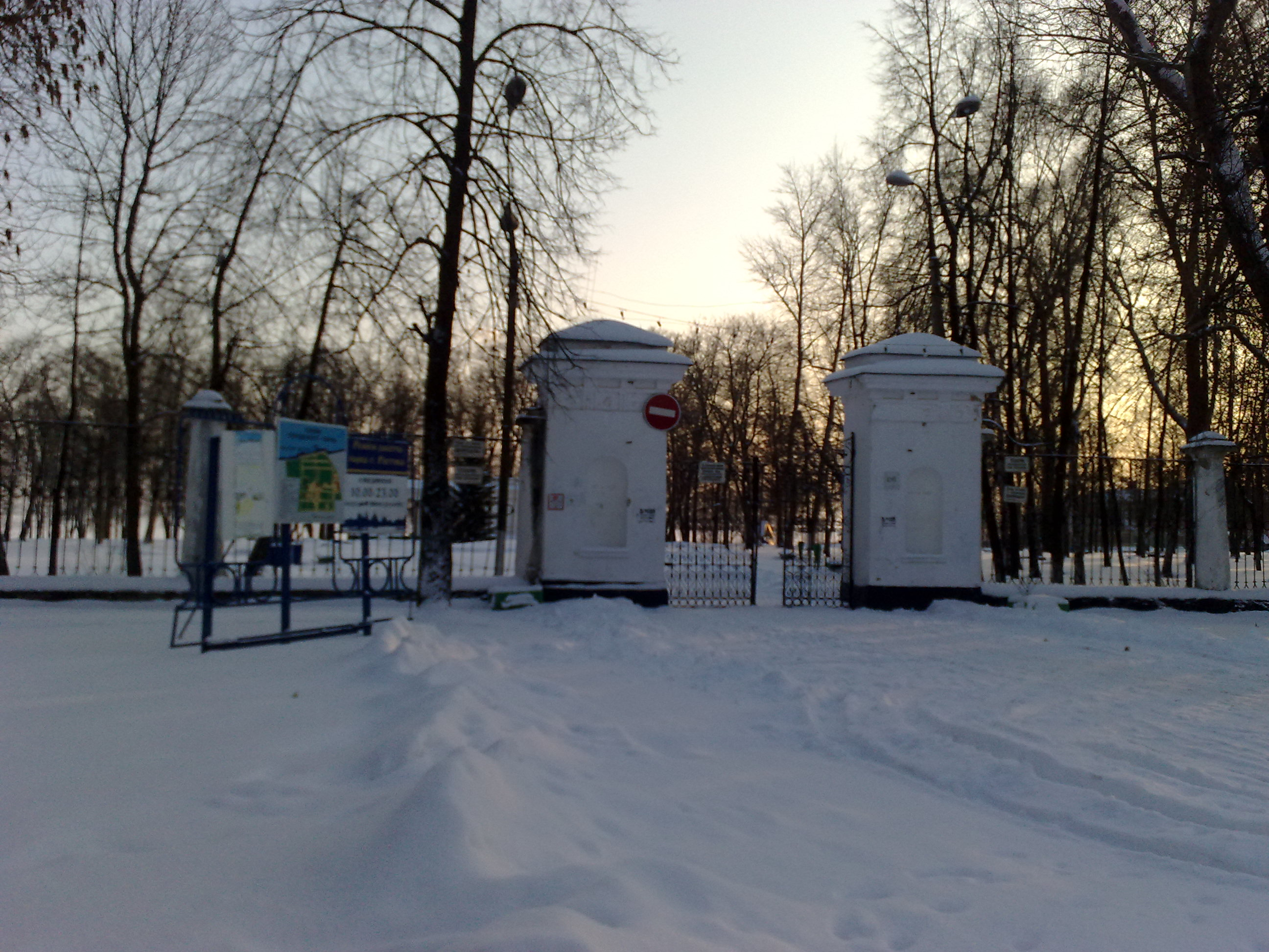 Input in the city park